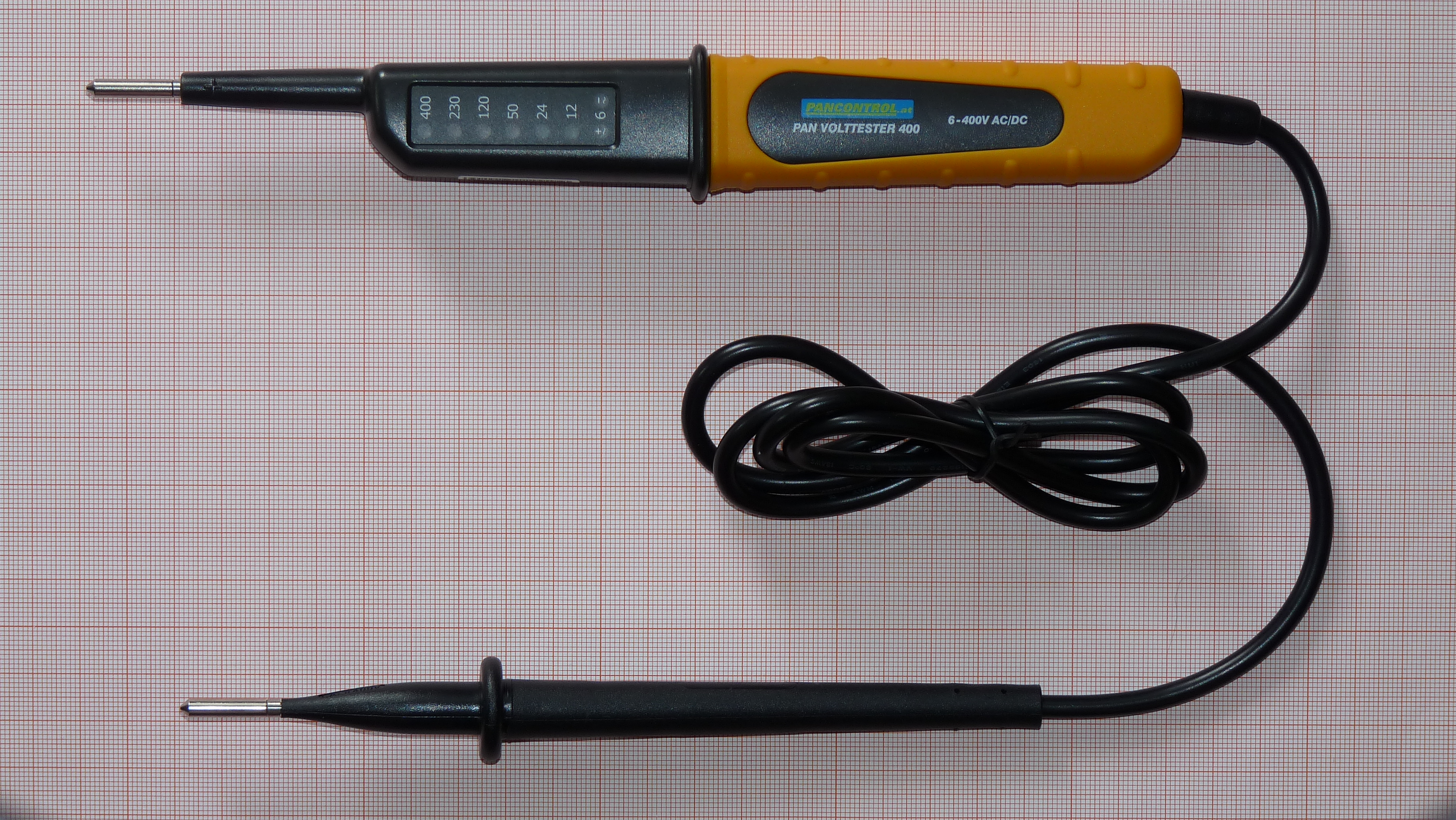 Voltage probe